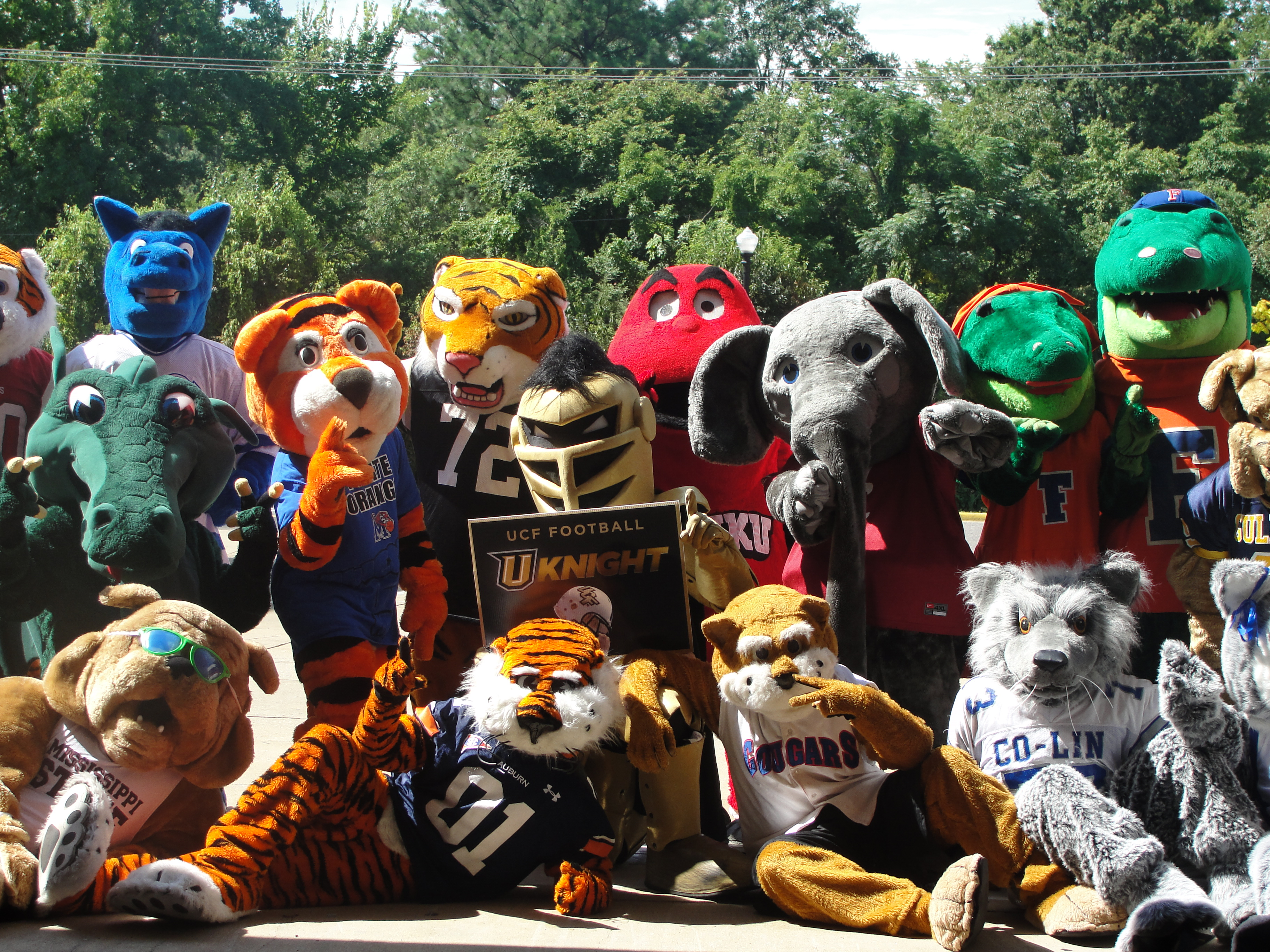 Knightro at Camp